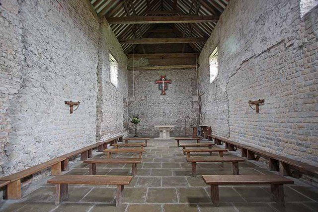 St Peter on the Wall, Bradwell juxta Mare, Essex - East end